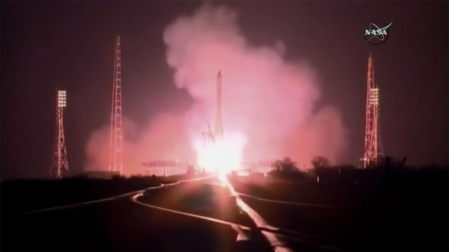 The Progress MS-04 (Progress 65) cargo spaceship launched on time Thursday morning from the Baikonur Cosmodrome in Kazakhstan.